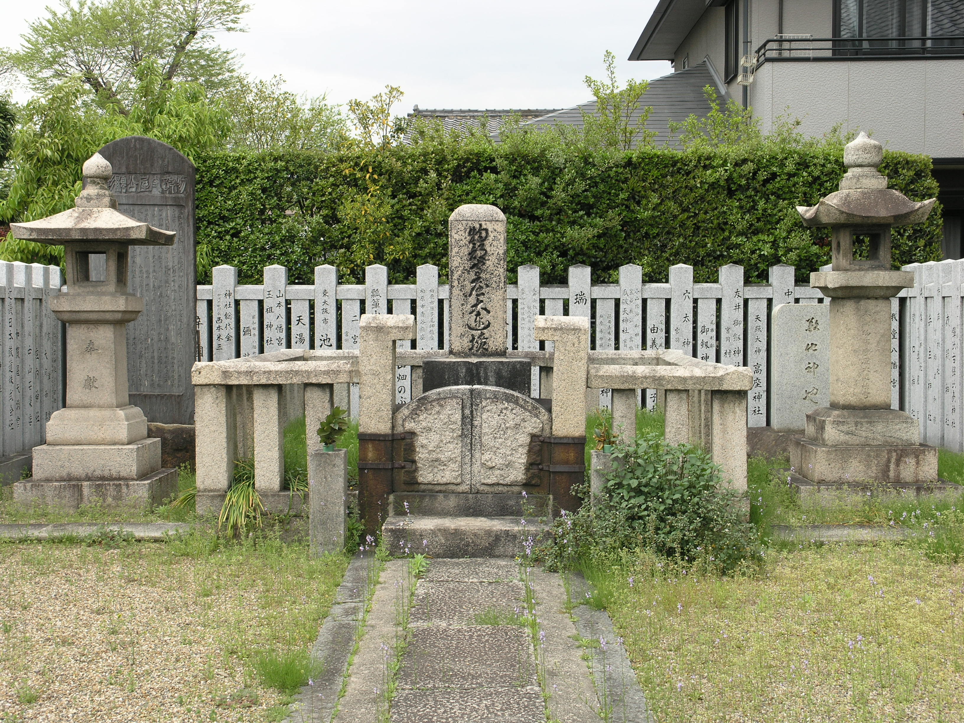 A tomb of Mononobe no Moriya in Yao, Osaka, Japan